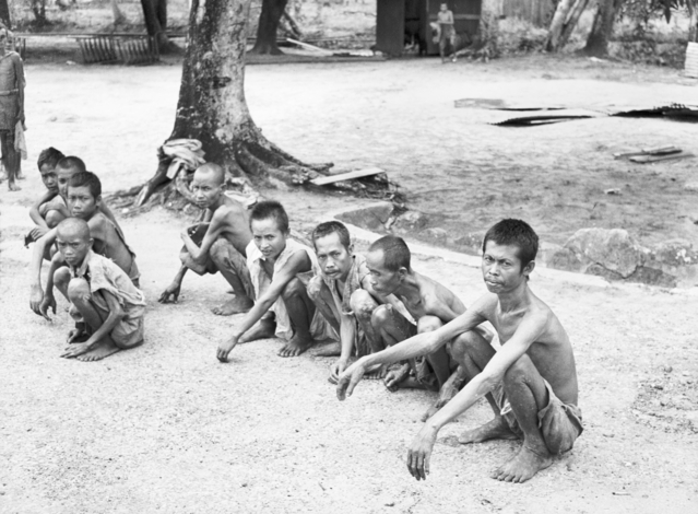 MIRI, BORNEO. 1945-08-28. OVER 300 NATIVES, MALAY AND JAVANESE, ESCAPED FROM THE JAPANESE AND ARE NOW IN THE BRITISH BORNEO CIVIL ADMINISTRATION COMPOUND. SHOWN ABOVE, A GROUP OF MEN TYPICAL OF THE MALNUTRITION CASES BEING TREATED AT THE COMPOUND.